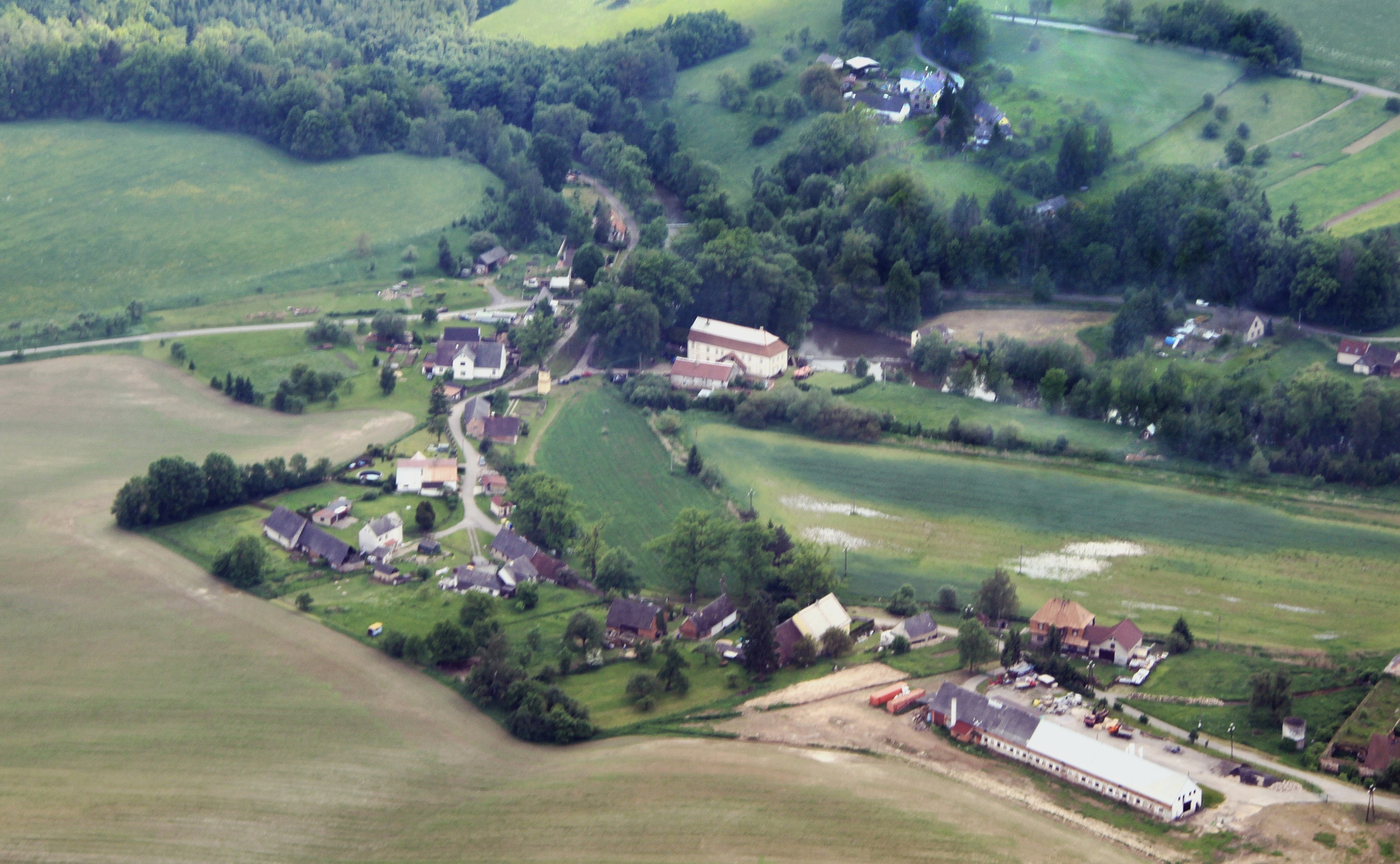 Village Stanovice near of town Dvůr Králové nad Labem from air, eastern Bohemia, Czech Republic